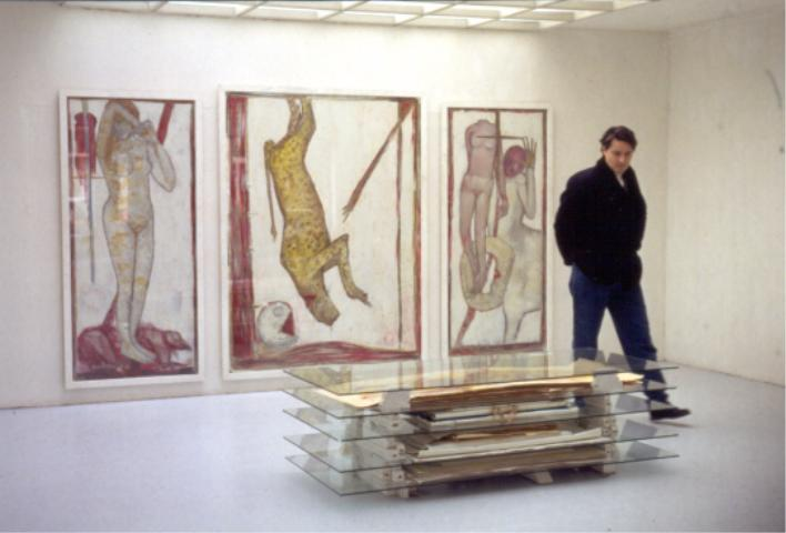 clemens weiss:installation view exhibition, neuer aachener kunstverein, aachen/germany 1990